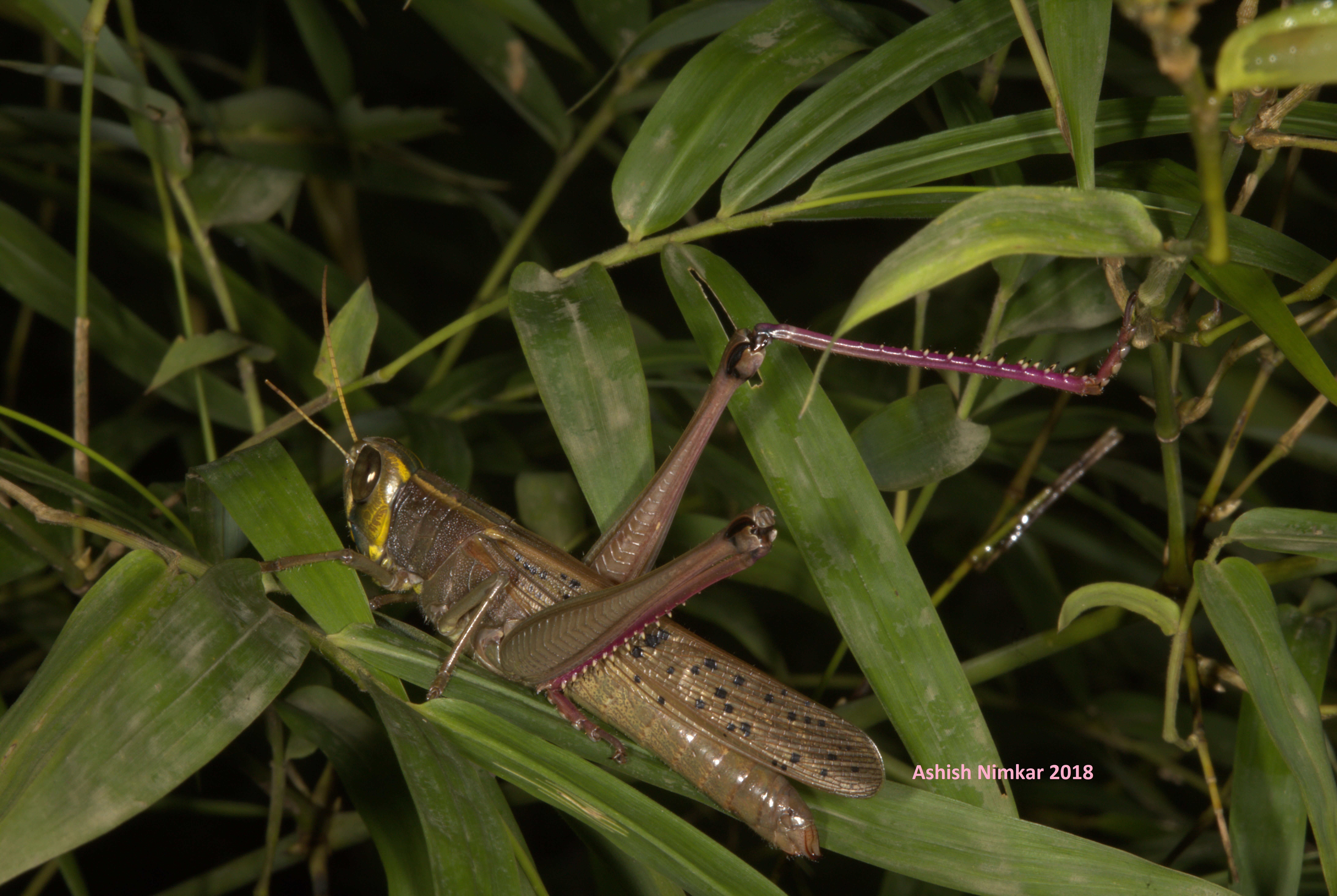 Spotted winged Locust (Choroedocus illustris) Catantopinae, Acrididae SGNP Borivali Block, Dist. Thane, Maharashtra, India. August 15, 2018.